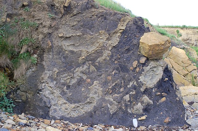 Pyroclastic breccia Three very knowledgeable people kindly gave their expert thoughts on what this is. All three said it was a pyroclastic breccia. The following is my abridged version of their emails and any errors are mine alone. Basically what you have here is a pyroclastic breccia consisting of angular blocks of sedimentary rock and maybe even some ragged to blobby bombs of pale basalt. The bluey grey tuffaceous matrix is probably mostly finely comminuted sediment, the local country rock is largely limestones and mudstones but maybe this has some bluish chlorite, some carbonaceous material perhaps or just a blue cast to the photograph. Thanks to ... Professor Barry Dawson Professor Brian Upton Dr David Stephenson and special thanks to Anne Burgess for making the contacts.